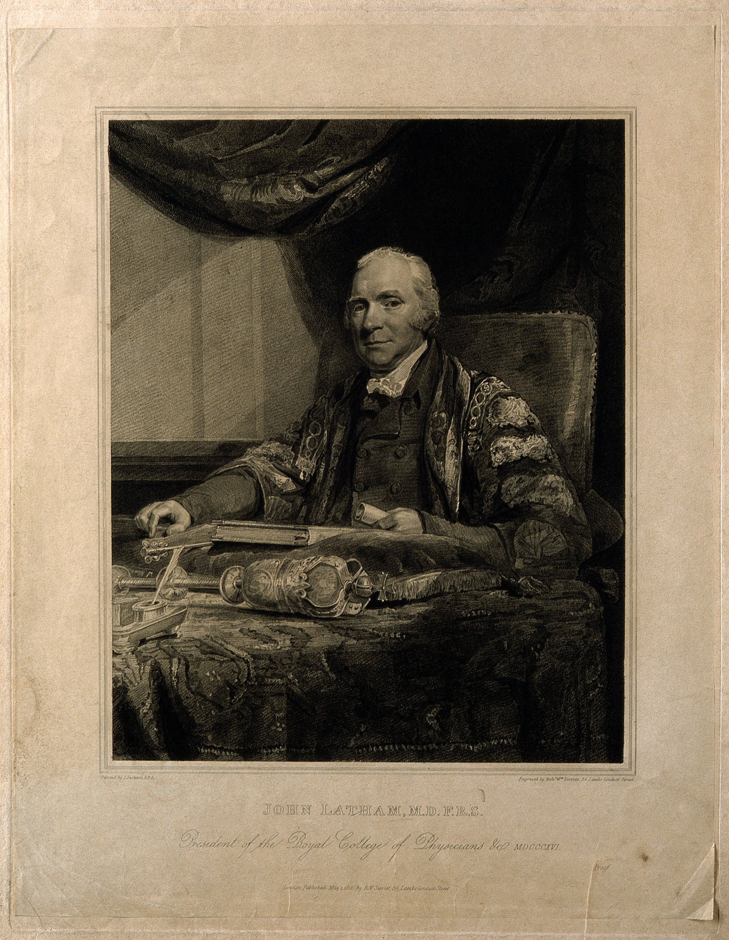 John Latham. Stipple engraving by R. W. Sievier, 1816, after J. Jackson, 1816. Iconographic Collections Keywords: portrait prints; John Latham; stipple prints